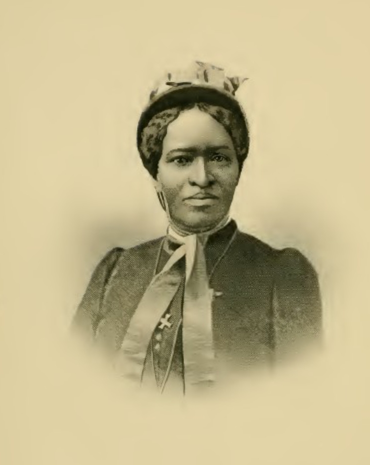 Frontispiece from The story of the Lord's dealings with Mrs. Amanda Smith, the colored evangelist.